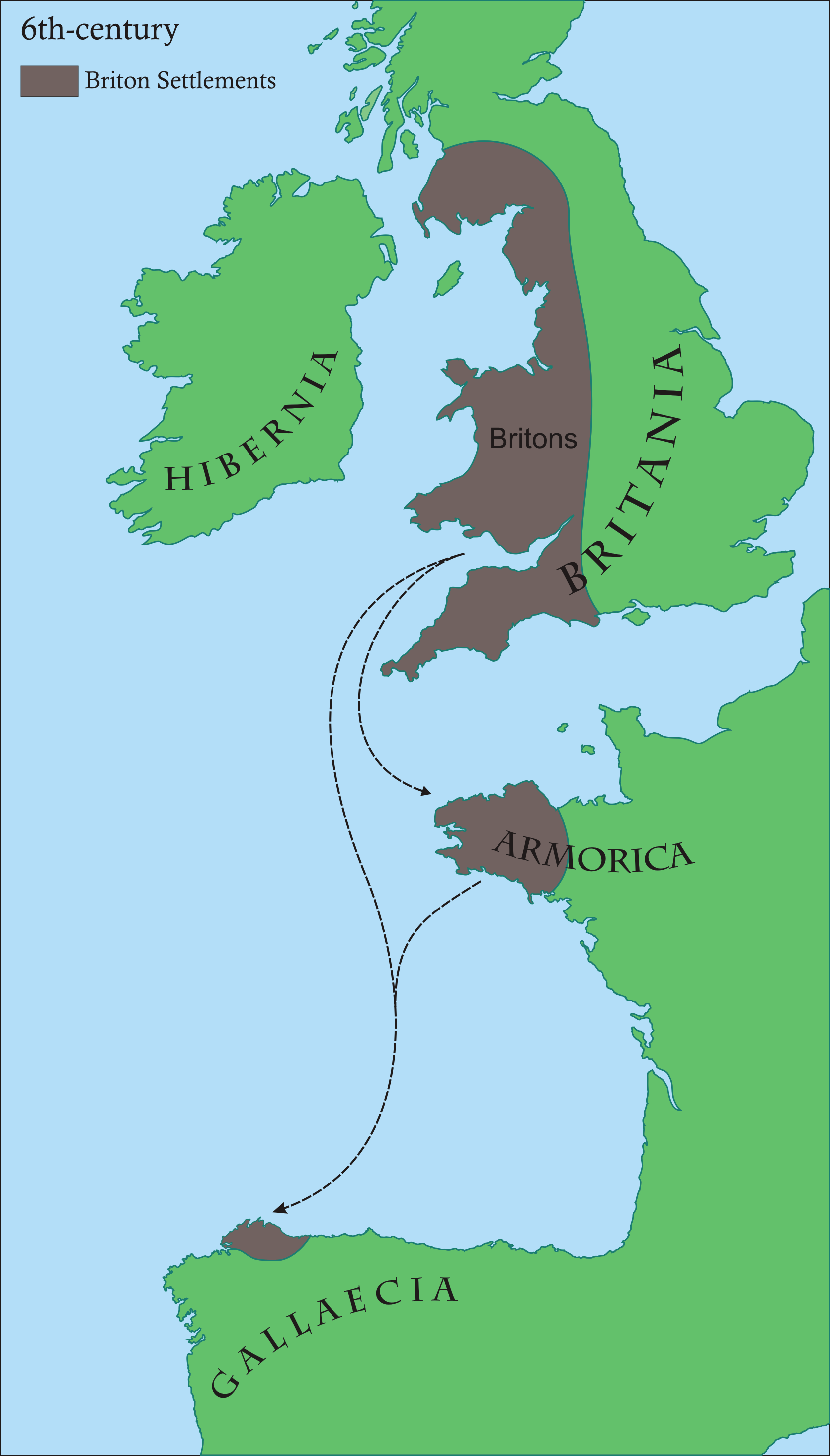 Map of areas in western Europe with Brythonic communities for the 6th century AD